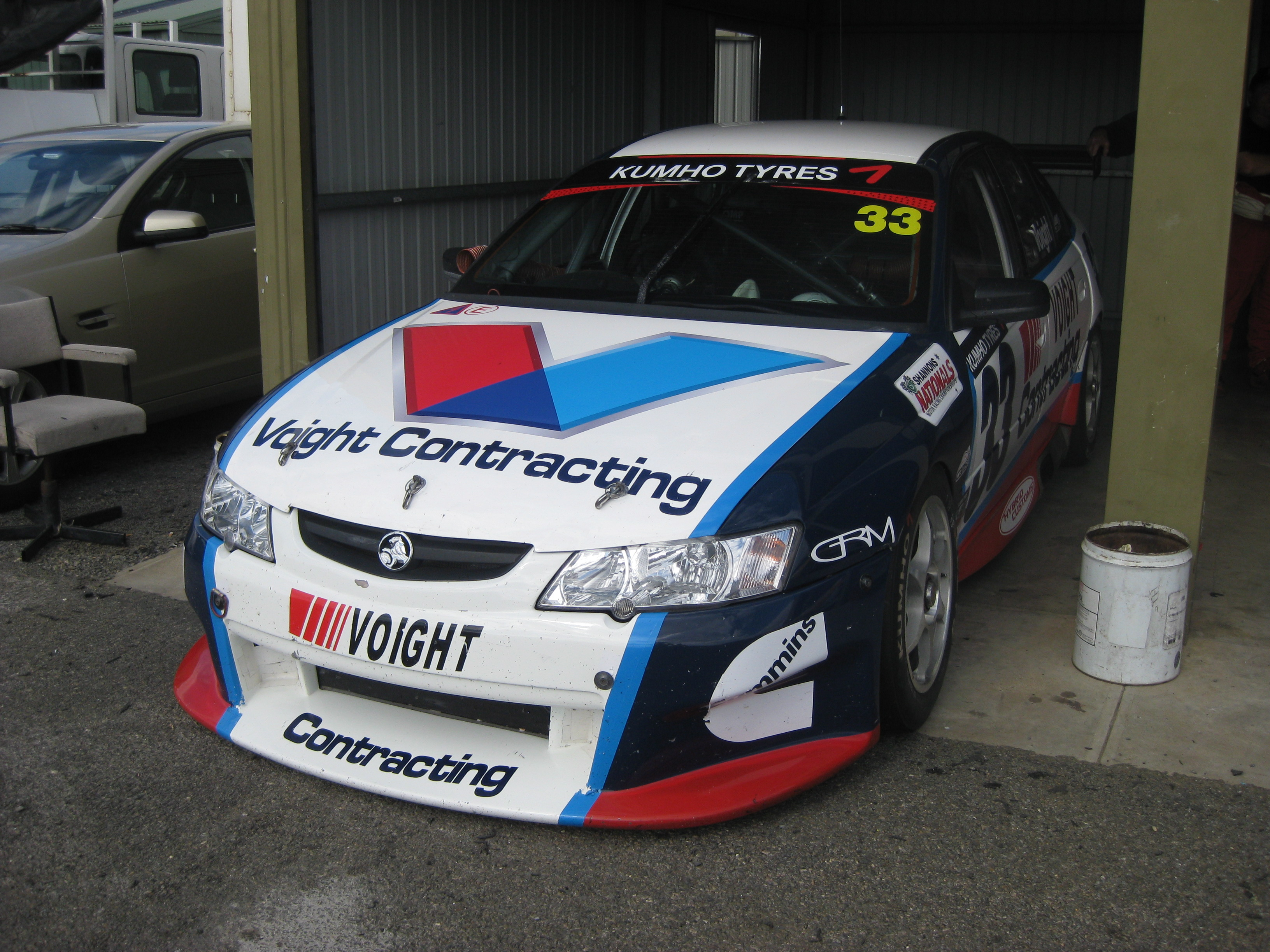 The Holden VY Commodore of Steve Voight at Mallala Motor Sport Park for Round 2 of the 2011 Kumho V8 Touring Car Series